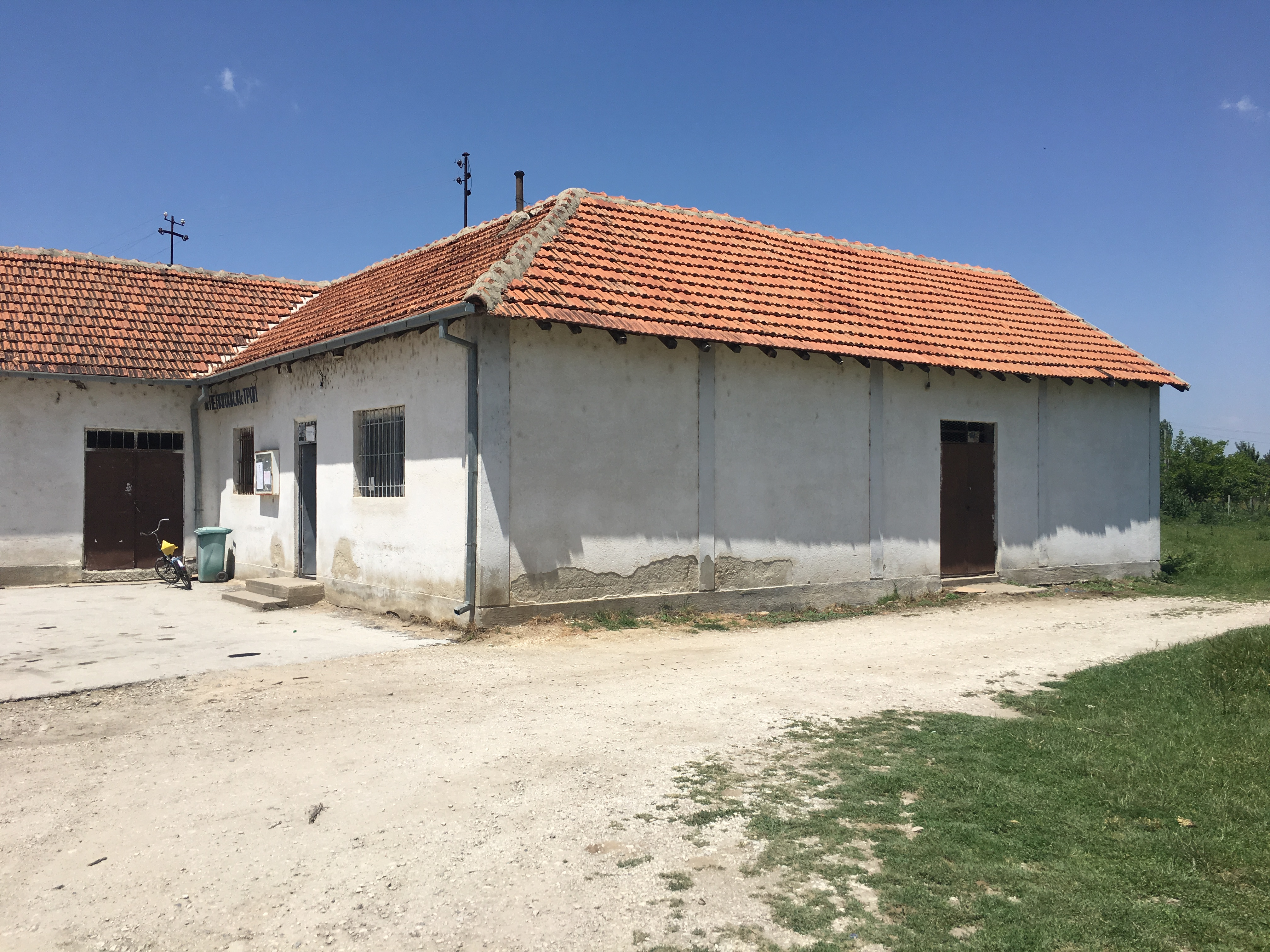 A commercial building in the village of Trap